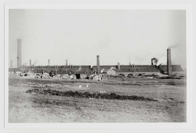 The rail rolling mill, Hughesovka